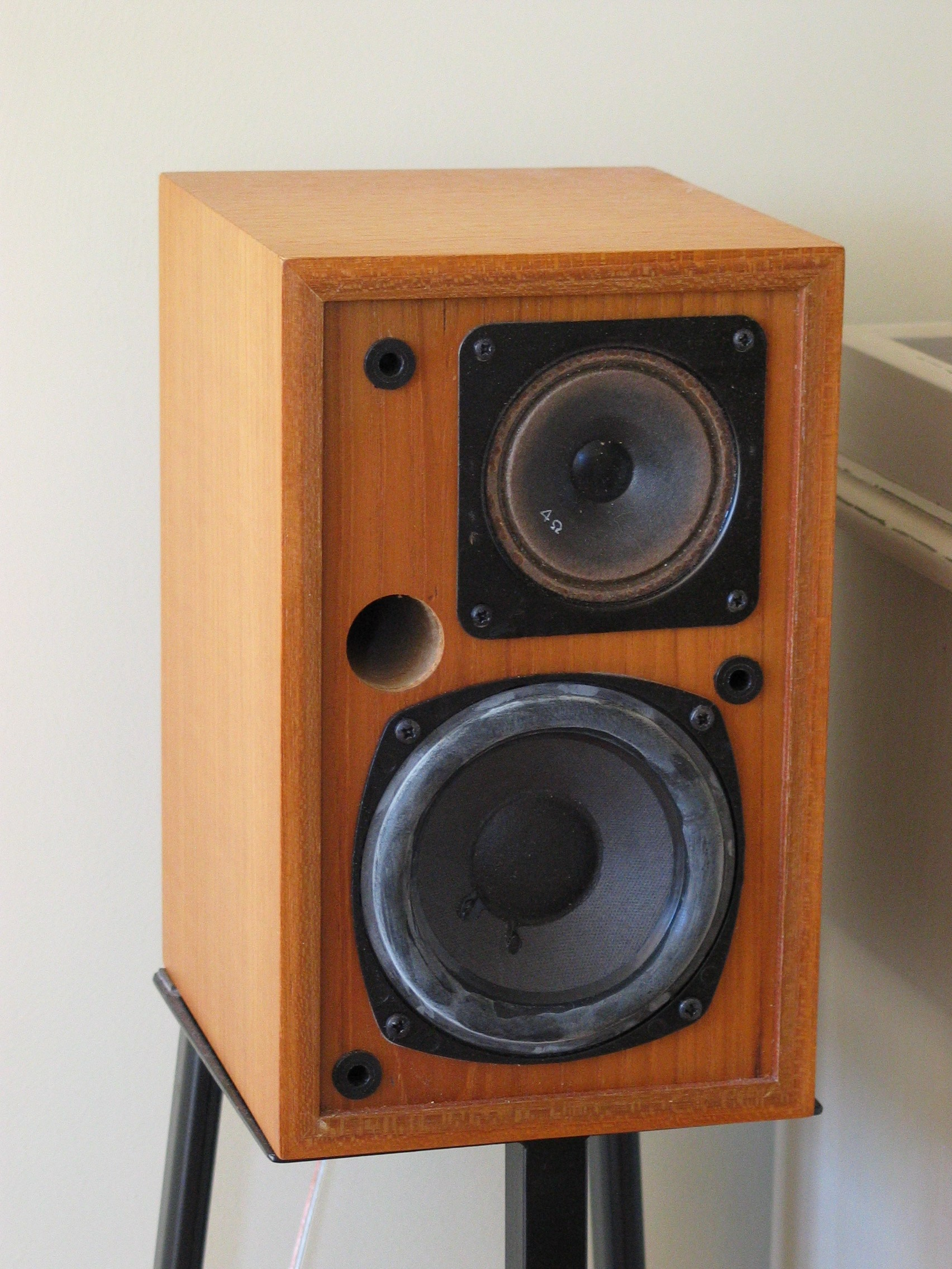 Keesonic Kub; compact, two way, bass reflex loudspeaker designed by Peter Keeley and manufactured in the UK in the 1980s. Grille removed in this photo.